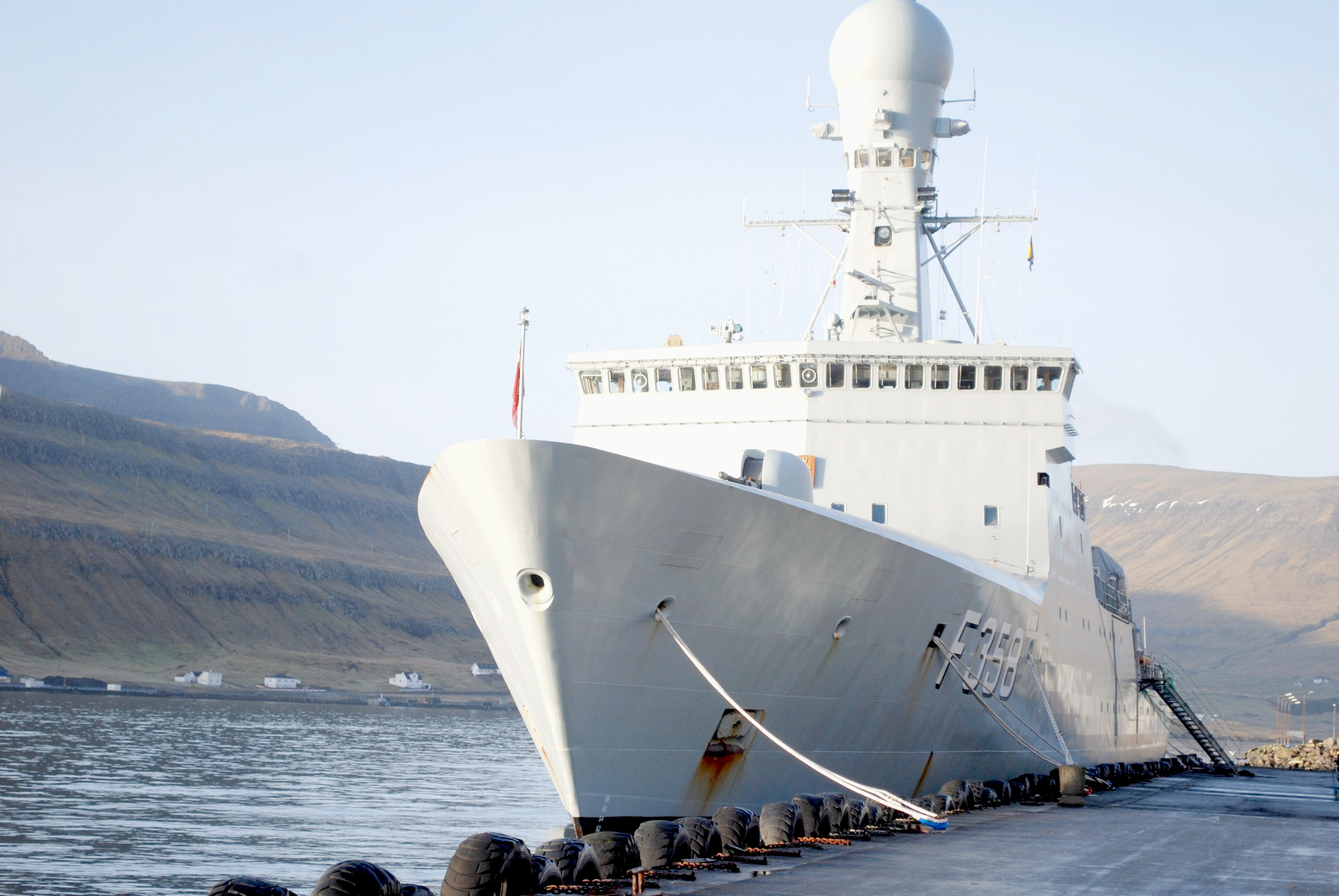 HDMS F 358 Triton is an ocean patrol vessel belonging to the Royal Danish Navy. It is being used to exercise the Danish sovereignty over the waters around Greenland and the Faroe Islands.